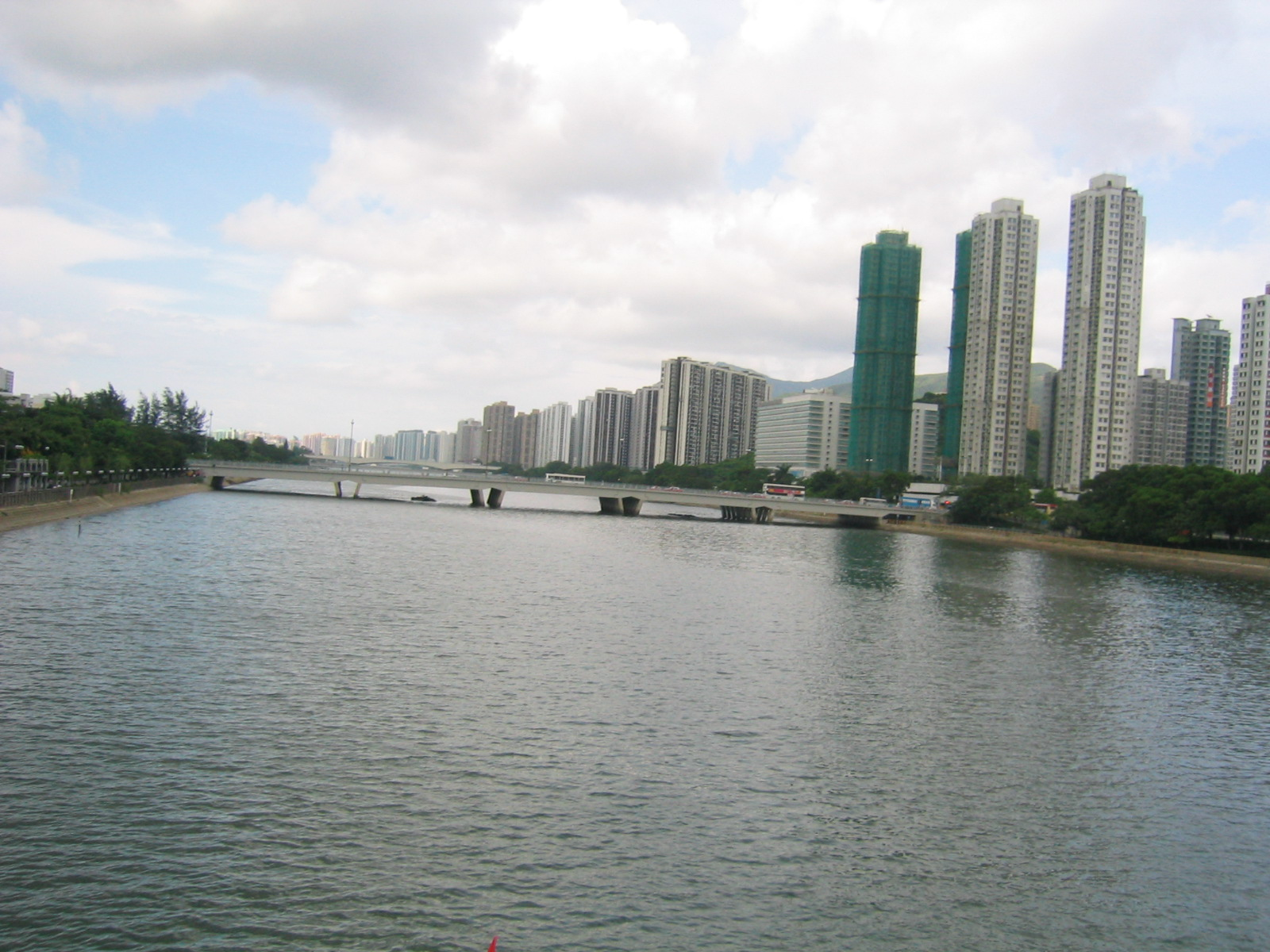 The Shing Mun River at Shatin, Hong Kong.